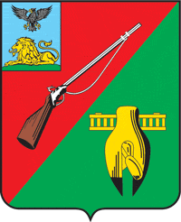 Stary Oskol (Belgorod oblast), coat of arms